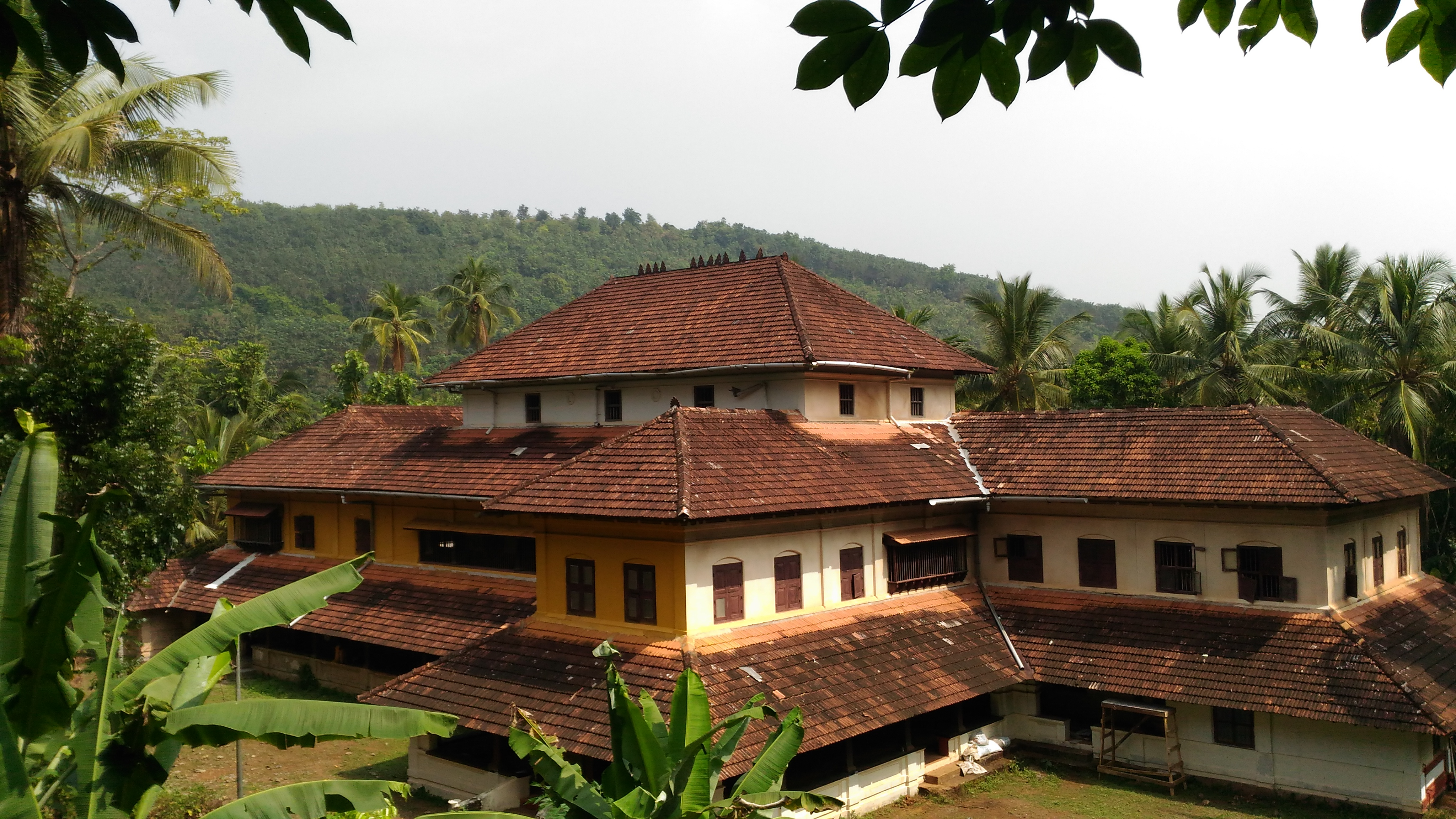 It is a Nalukettu House. Situates at Kalyan Road, Near to Kanhangad in Kerala